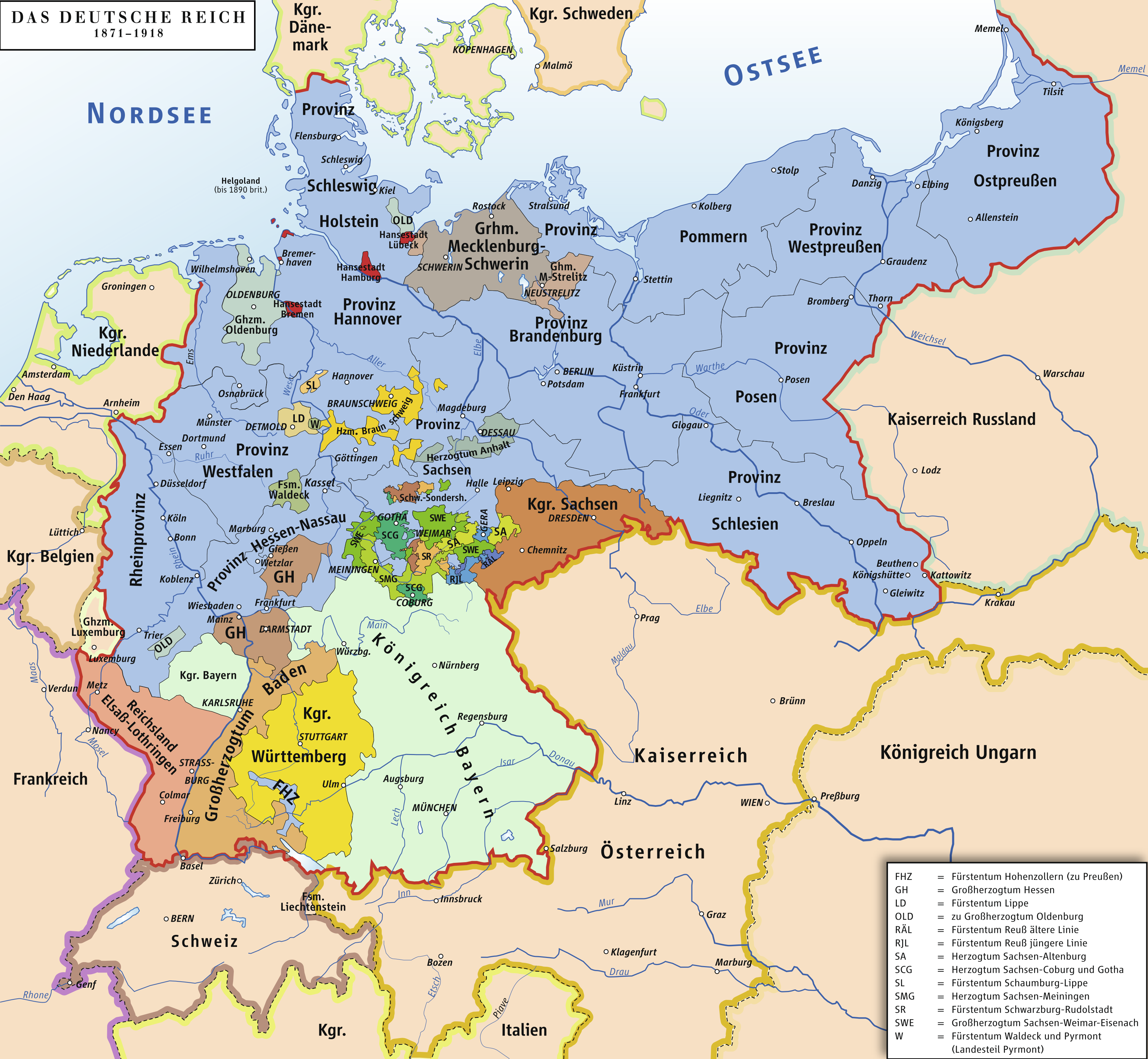 Map of German Reich 1871–1918